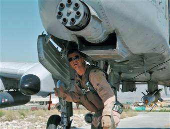 Closeup of 30mm antitank autocannon on A-10 aircraft